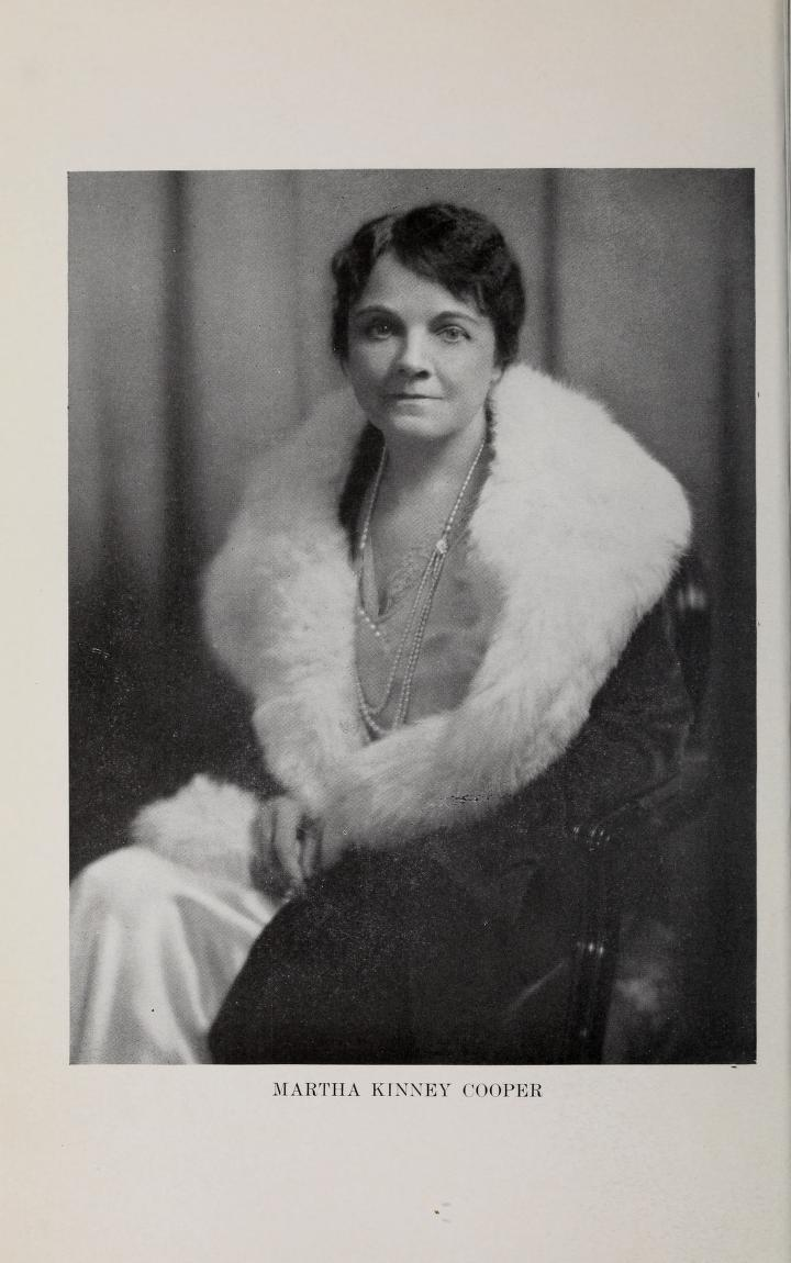 Black and white photo of Martha Kinney Cooper seated and wearing a fur collared coat